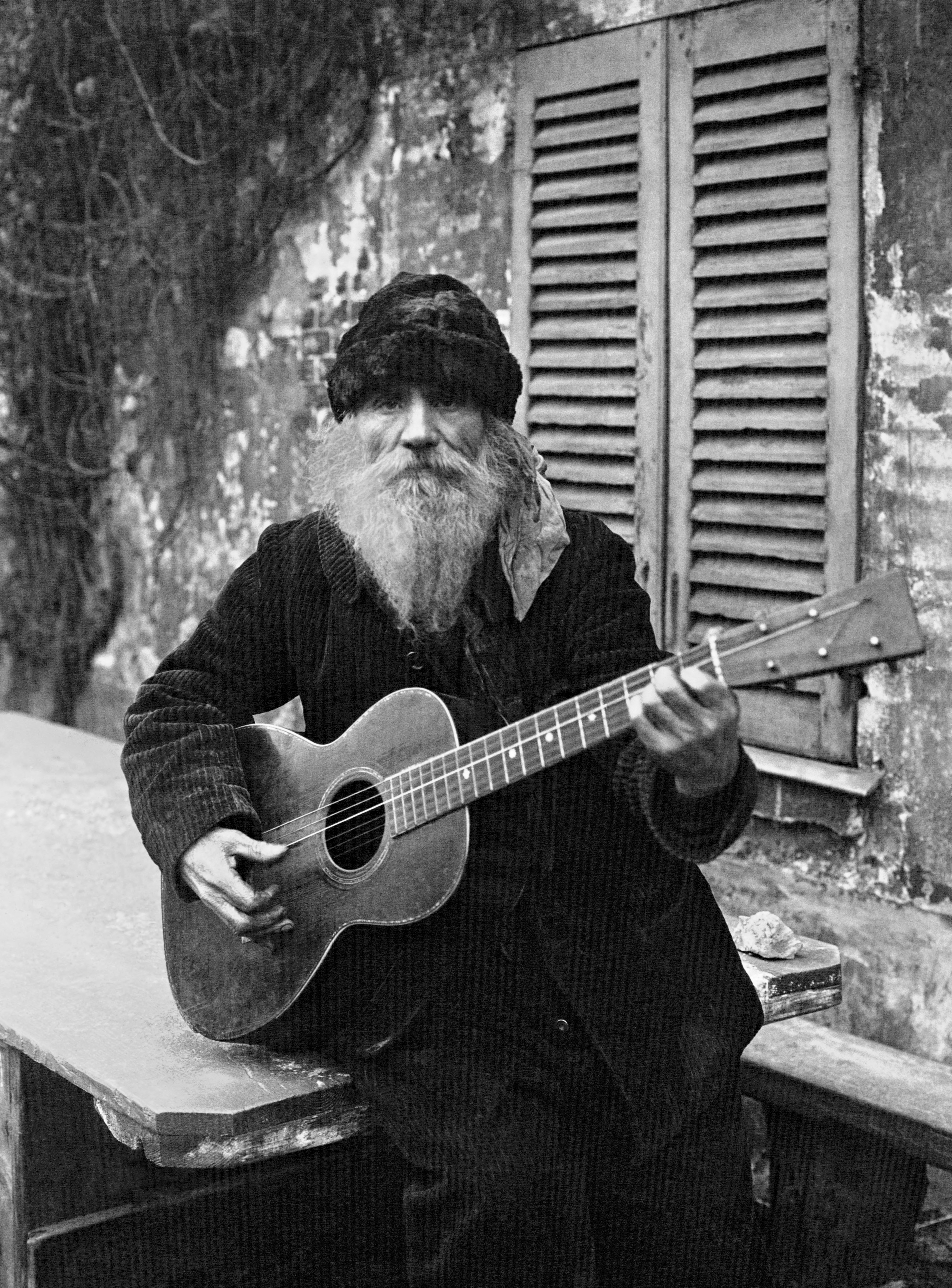 Frédéric Gérard, Who owned and ran the Lapin Agile, famous Montmartre cabaret. Picture taken in 1927. Restored and cropped print.